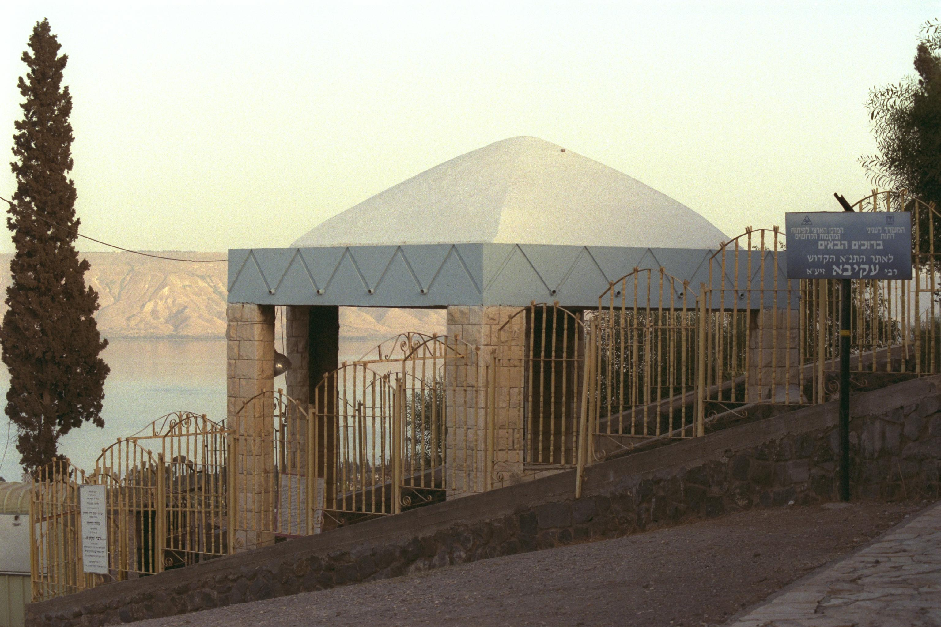 The tomb of Rabbi Akiva in the city of Tiberias.